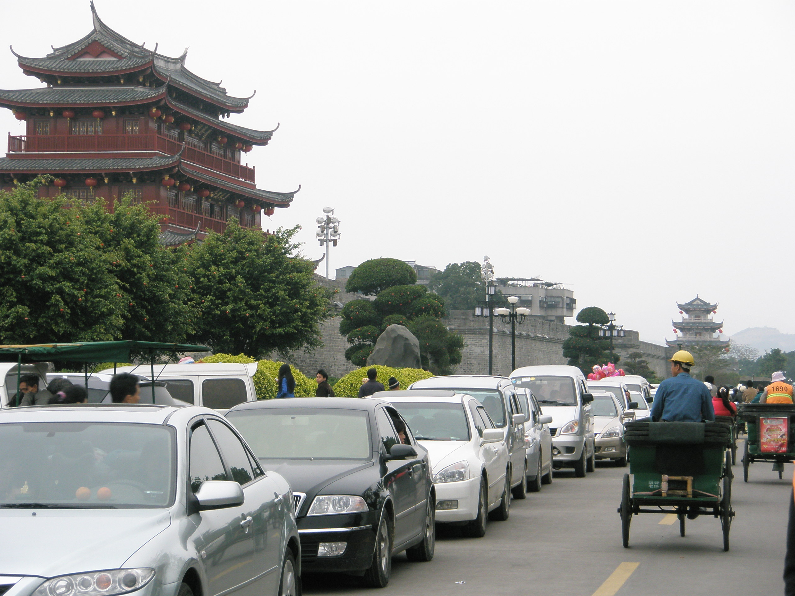 teochow Hubin Road